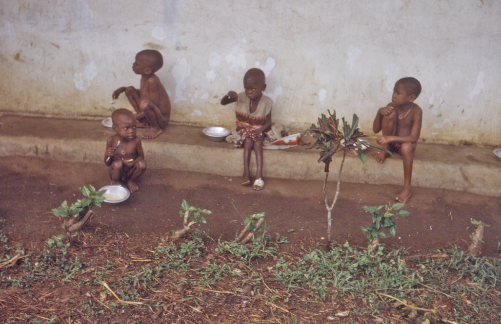 This late 1960s photograph showed four Nigerian children who were in a refugee relief camp during the Nigerian-Biafran civil war. Note one of the children on the left has light hair, which is a symptom indicative of kwashiorkor, a disease brought on due to severe dietary protein deficiency. Many of the children that were weak and listless, needed much in the way of nursing care in order to survive. These relief camps provided feeding wards where doctors, including CDC EIS officer Godfrey P. Oakley, Jr., M.D.,, were on call 24 hours a day, monitoring 100 or more stage-four kwashiorkor children.